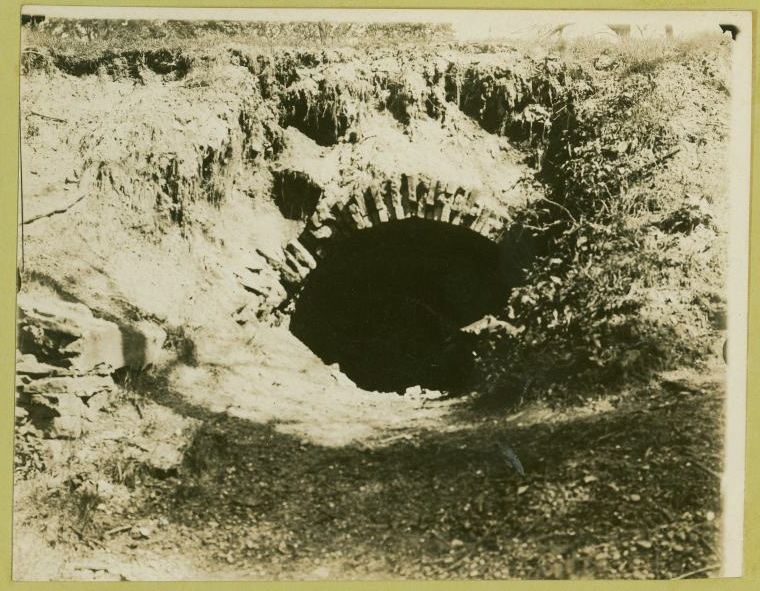 Tunnel arranged to facilitate Bonaparte's departure, Bordentown, New Jersey